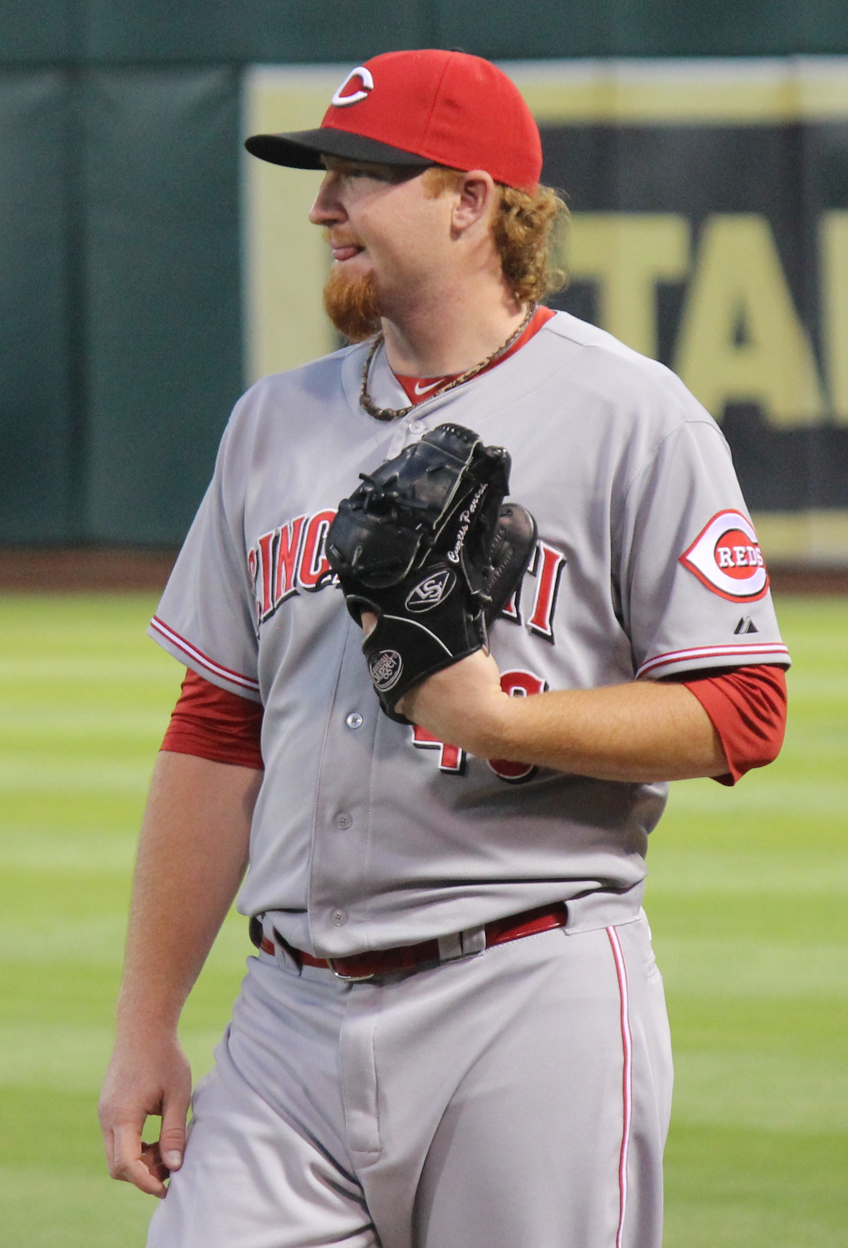 Photo of Curtis Partch, 2013-06-25, Oakland CA